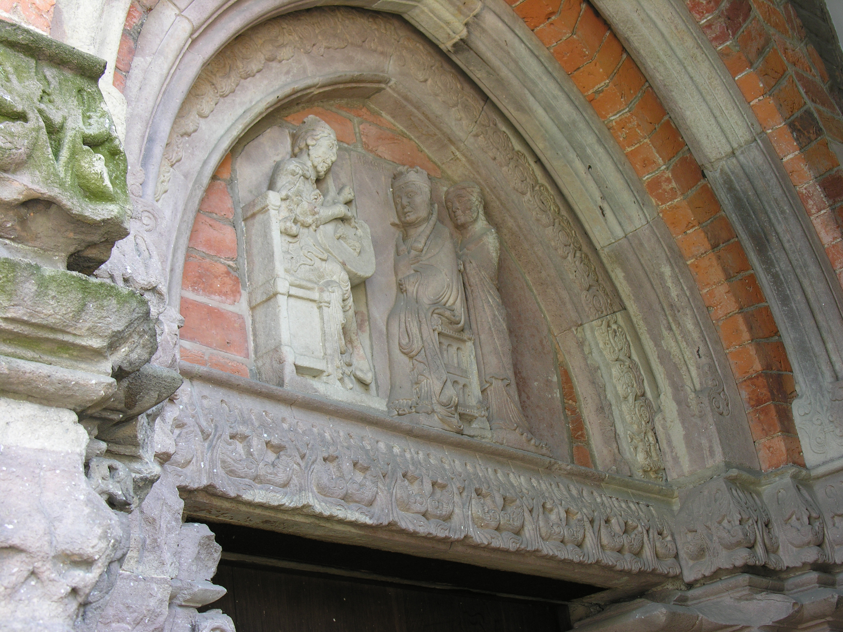 Tymapano w kościele cysterek w Trzebnicy przedstawiający kreóla Dawida grającego dla królowej Betsabe